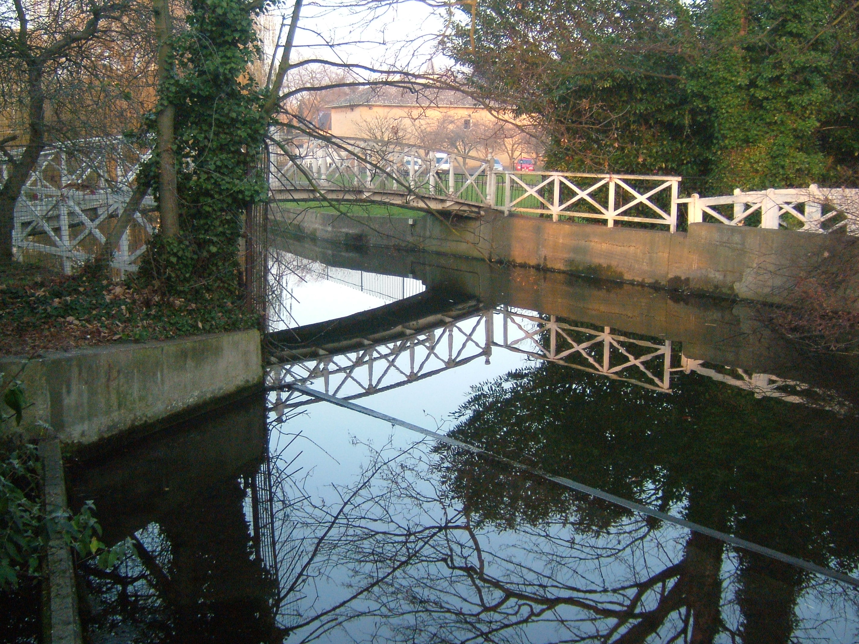 Dartford is a town in North Kent, England. River Darent, in Central Park